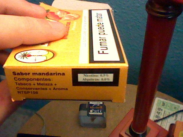 An El Nakhla tobacco's case showing the percent of nicotine and tar of its content.